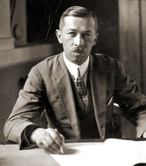 Marian Szumlakowski (1892-1961) – Polish diplomat. Envoy to Portugal 1933-35, and to Spain (1935-1944)